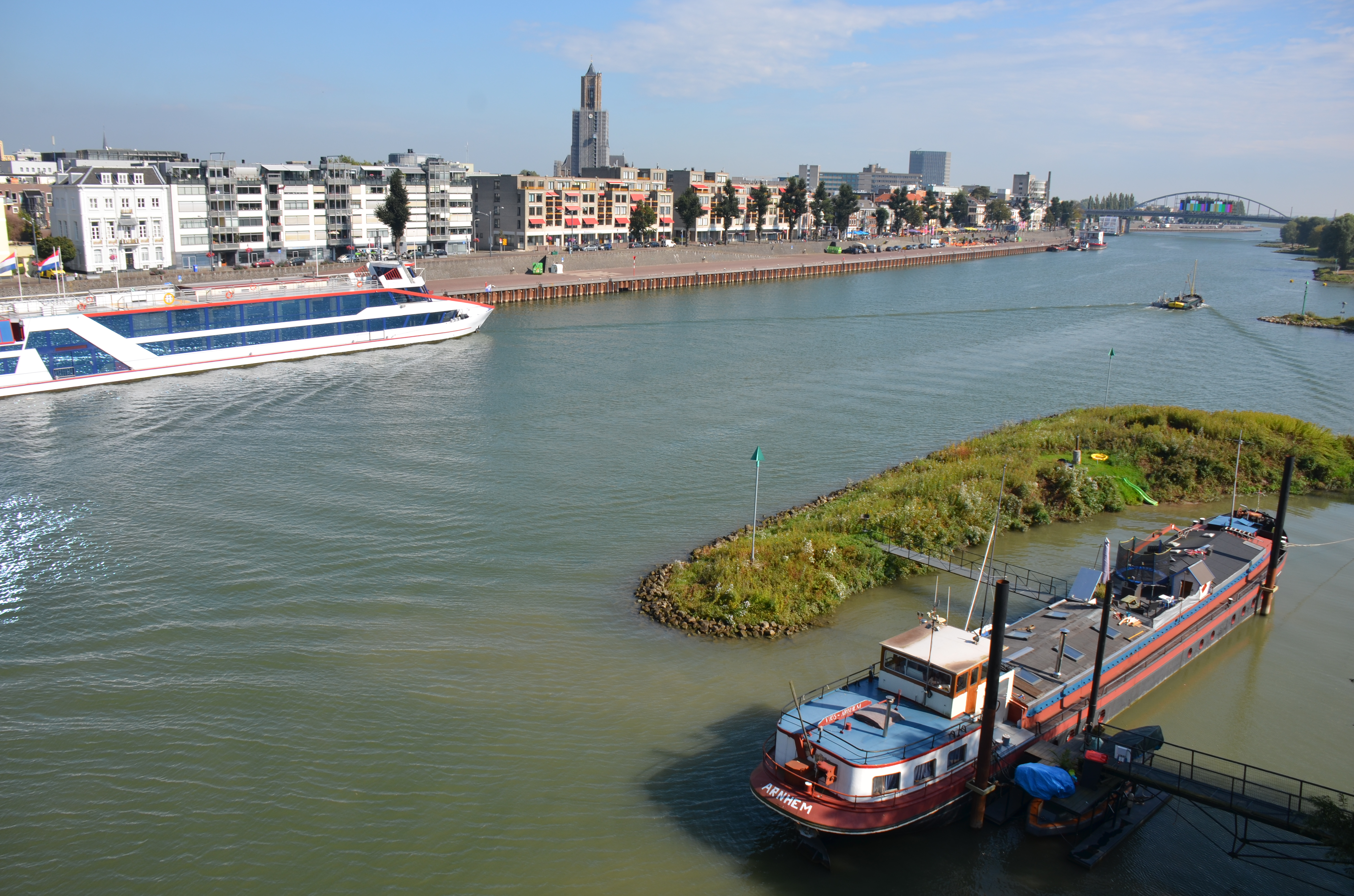 Southview of the Arnhem rhine promenade. Getting ready for 70th anniversiary Battle of Arnhem 20 September. The bridge is covered with flags